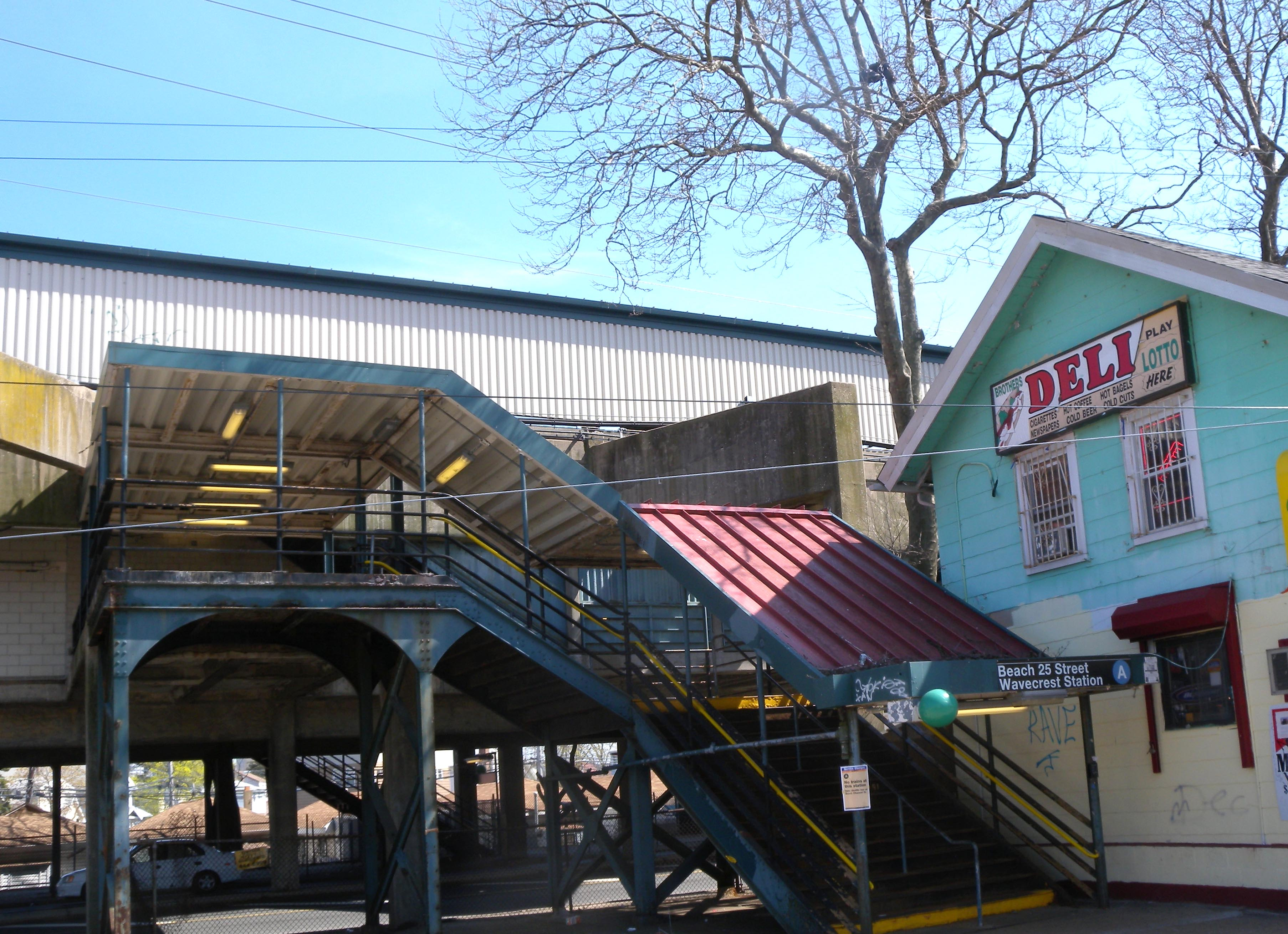 Looking southeast at Beach 25th Street station of Rockaway Line on a sunny early afternoon.